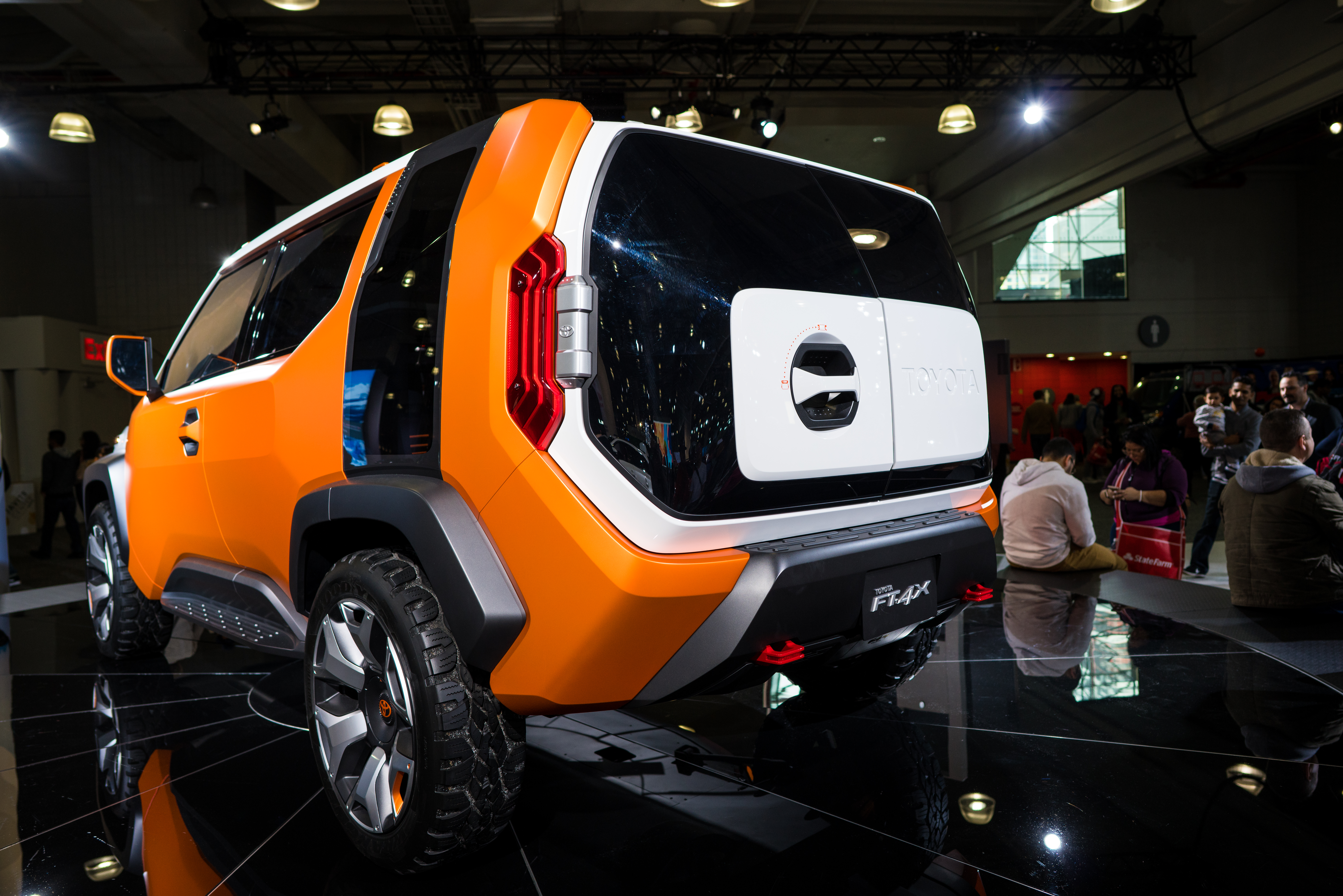 Toyota FT-4X at the New York International Auto Show NYIAS